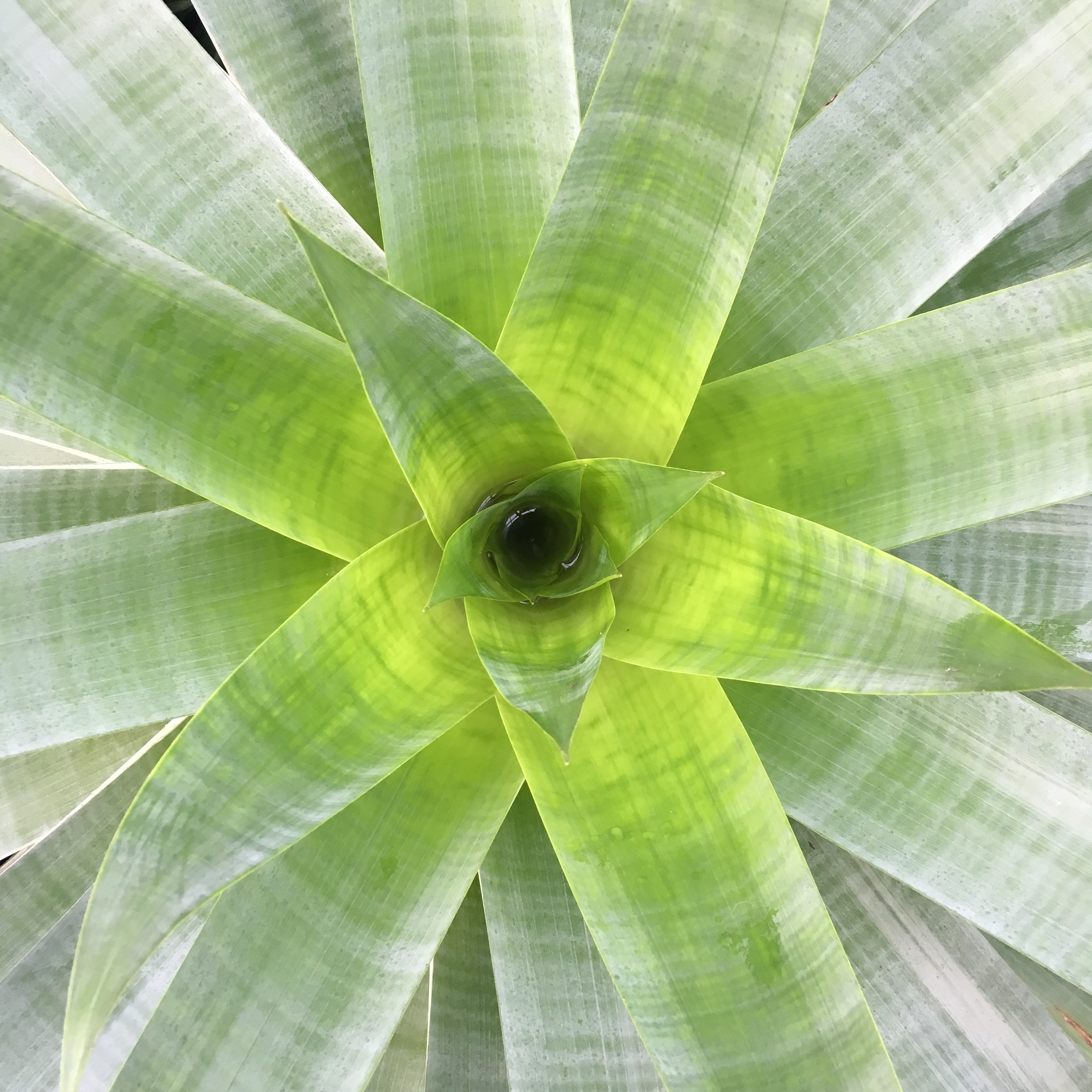 Habitus (detail of urn), photographed at Kew Gardens in 2018